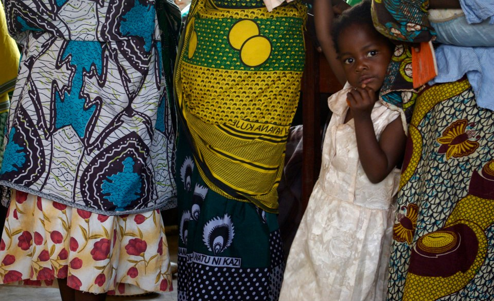 This is an image of Cultural Fashion or Adornment from Malawi